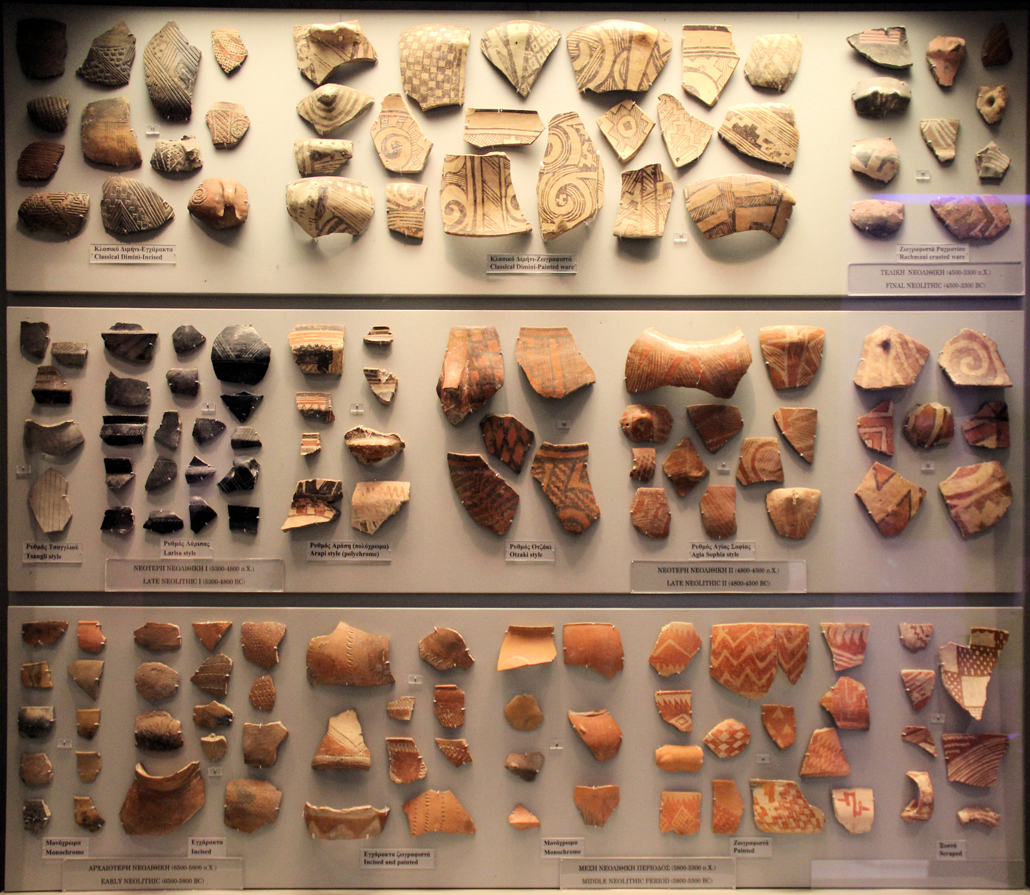 Greek Prehistory Gallery, National Museum of Archaeology, Athens, Greece. Complete indexed photo collection at .